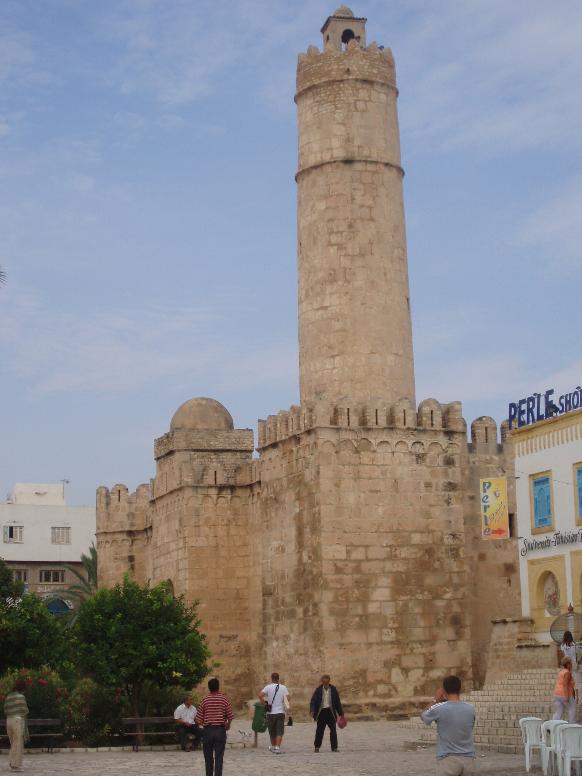 Ribat of Sus, Tunis